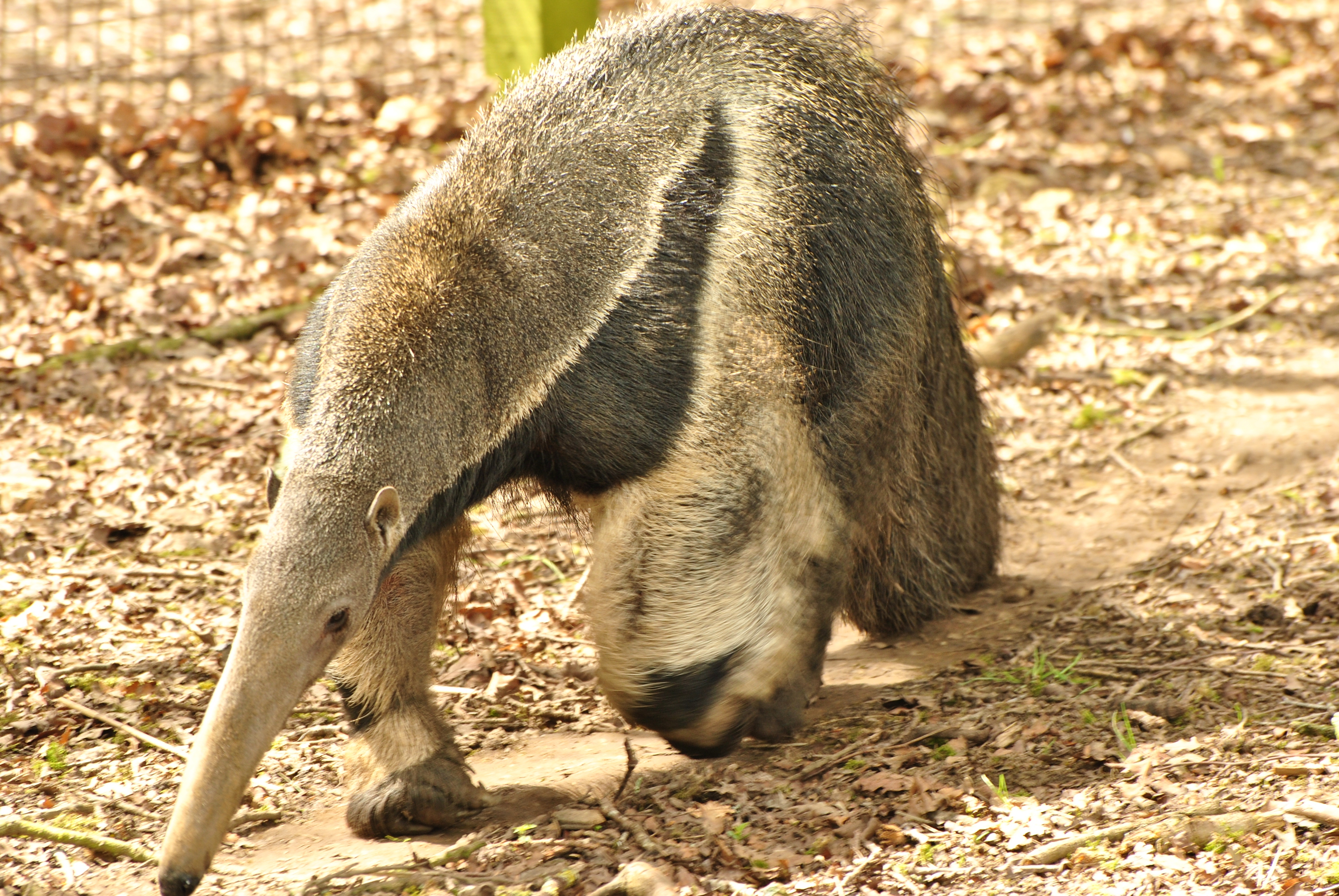 Giant anteater at Cotswold Wildlife Park, Broadwell, Oxfordshire